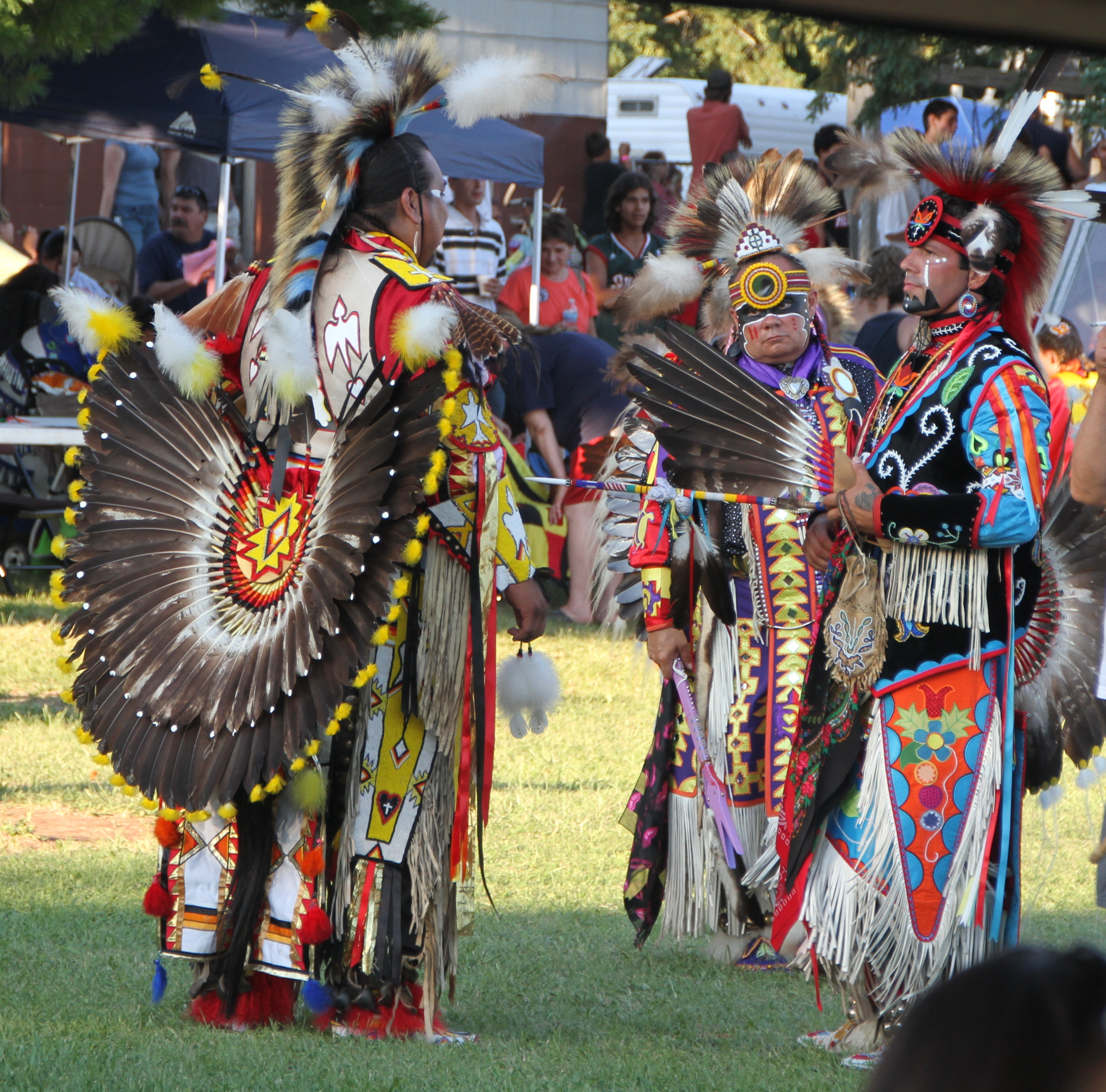 Images from the 34th powwow at Red Clif, north Wisconsin, in July 2012.